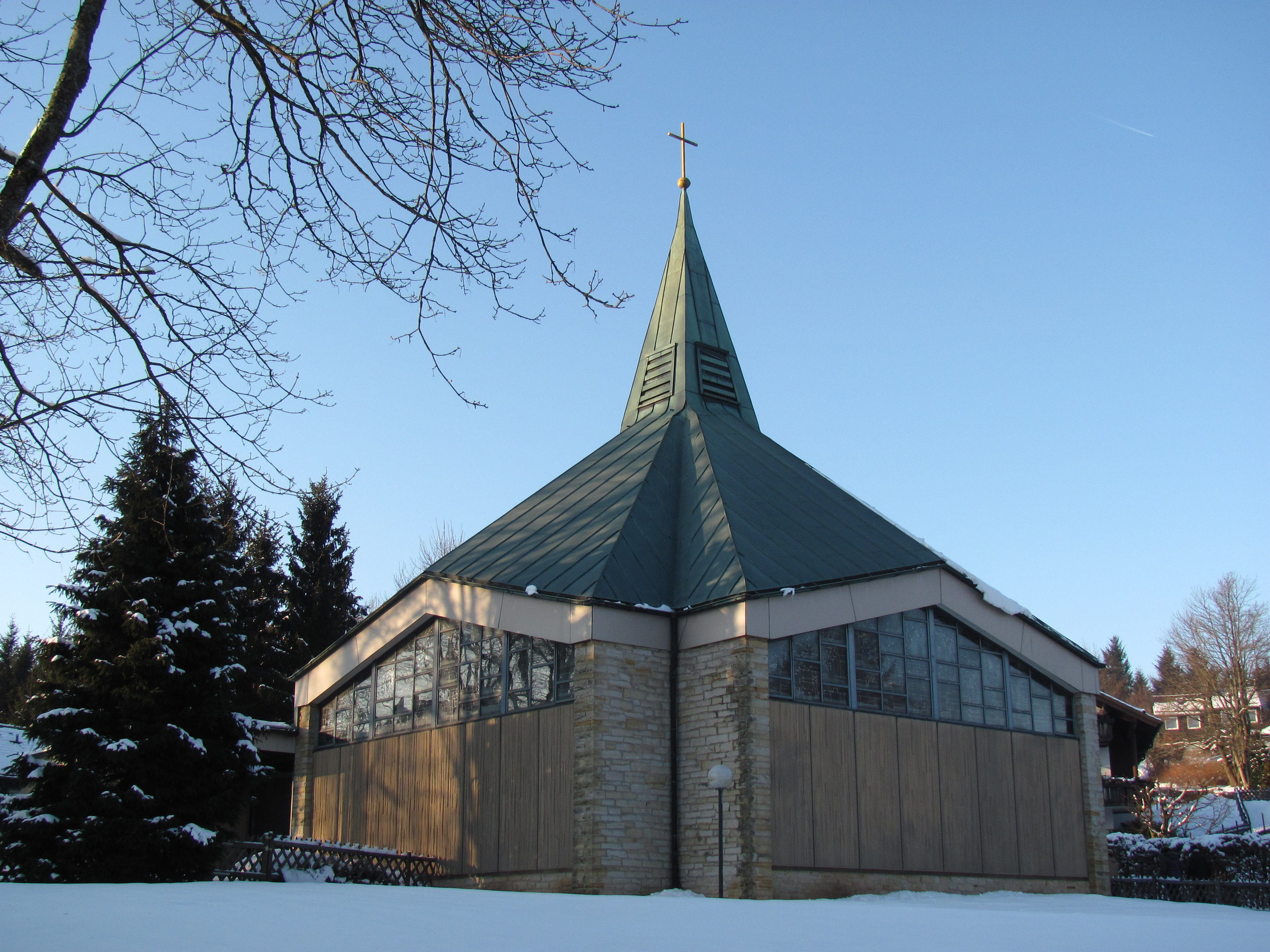 Catholic Church Maria im Schnee (built in 1960), Hahnenklee, Harz Mountains, Germany